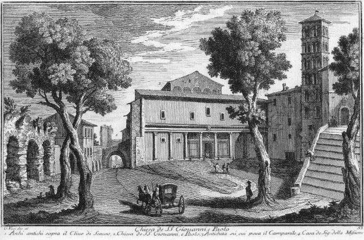 1) Arches above Clivo di Scauro; 2) SS. Giovanni e Paolo; 3) Roman foundations of the bell tower; 4) Entrance to the adjoining monastery.